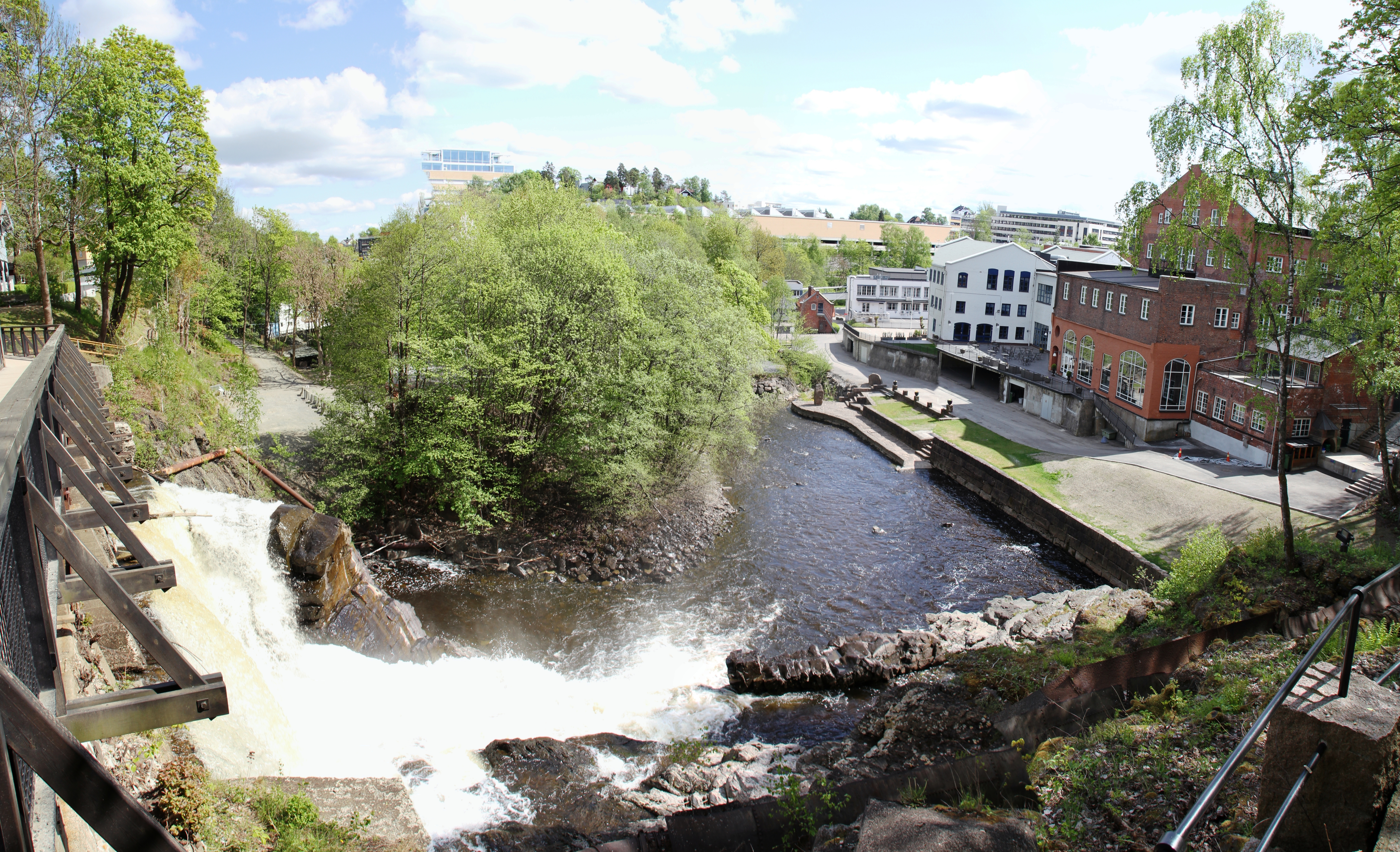 Granfossen waterfall at Fåbro in the Lysakerelva river, near Lyaker, Oslo/Bærum (Norway)